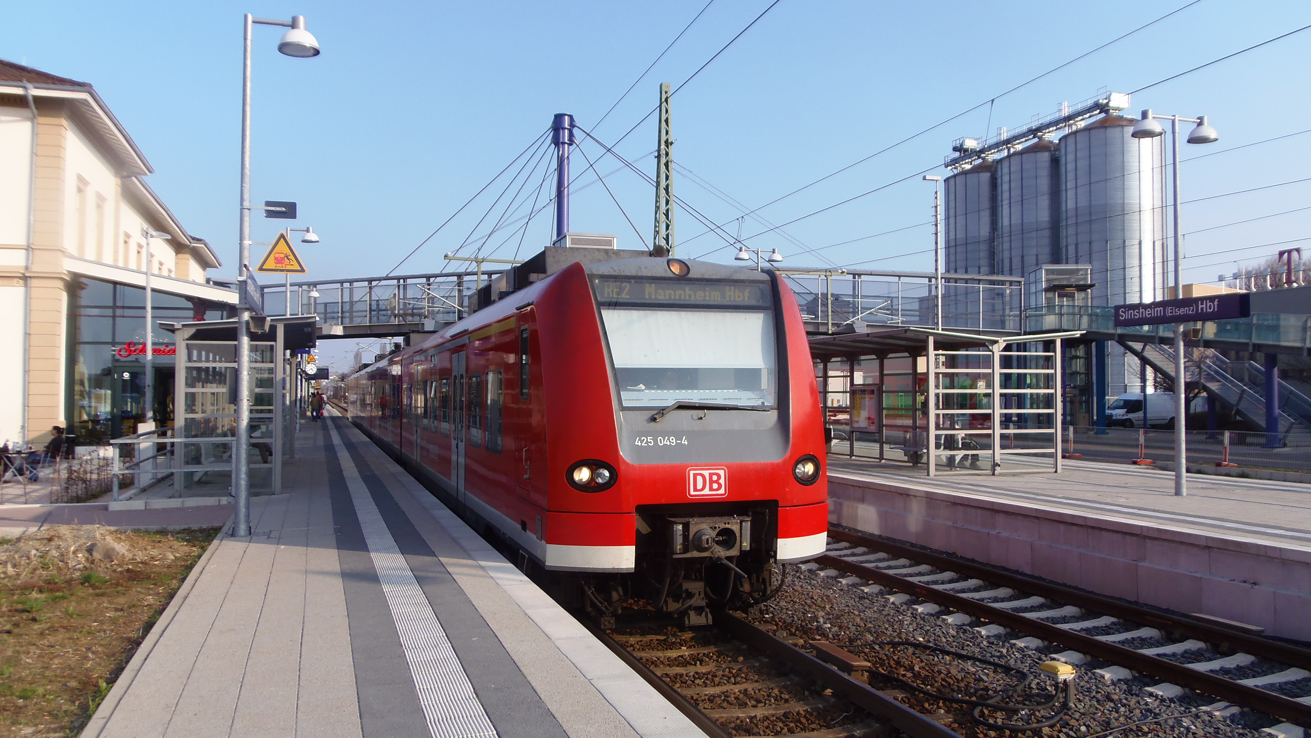 Sinsheim (Elsenz) main station with a train set of 425 seriesLatina: Sinsheim (Elsenz) statio ferriviara cum comitatu statuto de CDXXV series